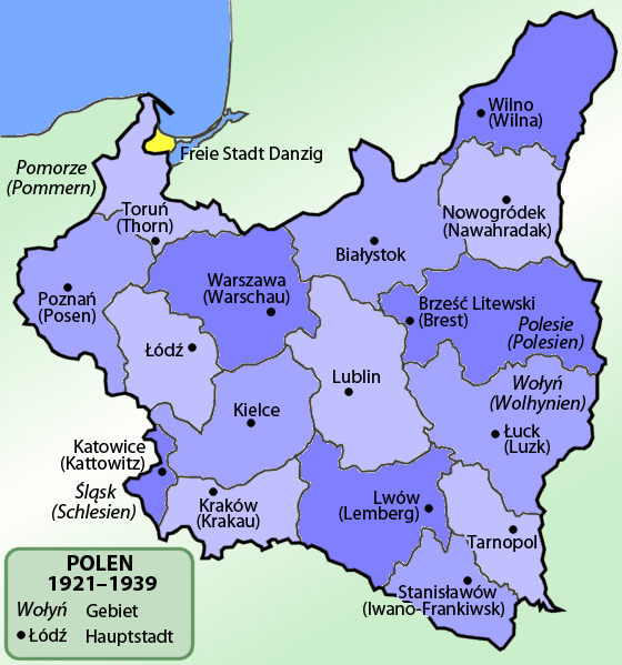 Map of Poland 1921-1939